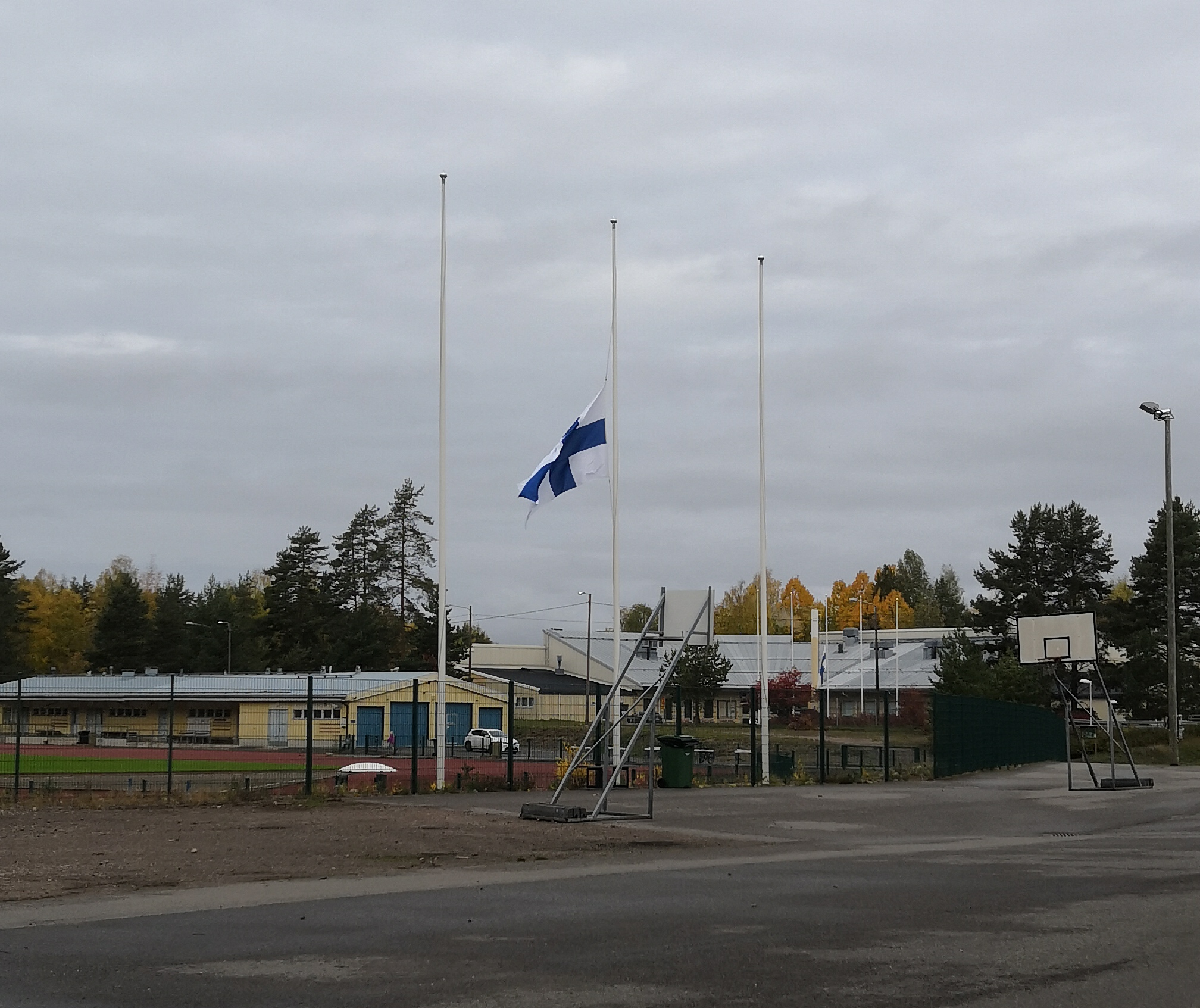 Suomen lippu puolitangossa Kuopion koulusurman johdosta 3.10.2019 Valkealassa